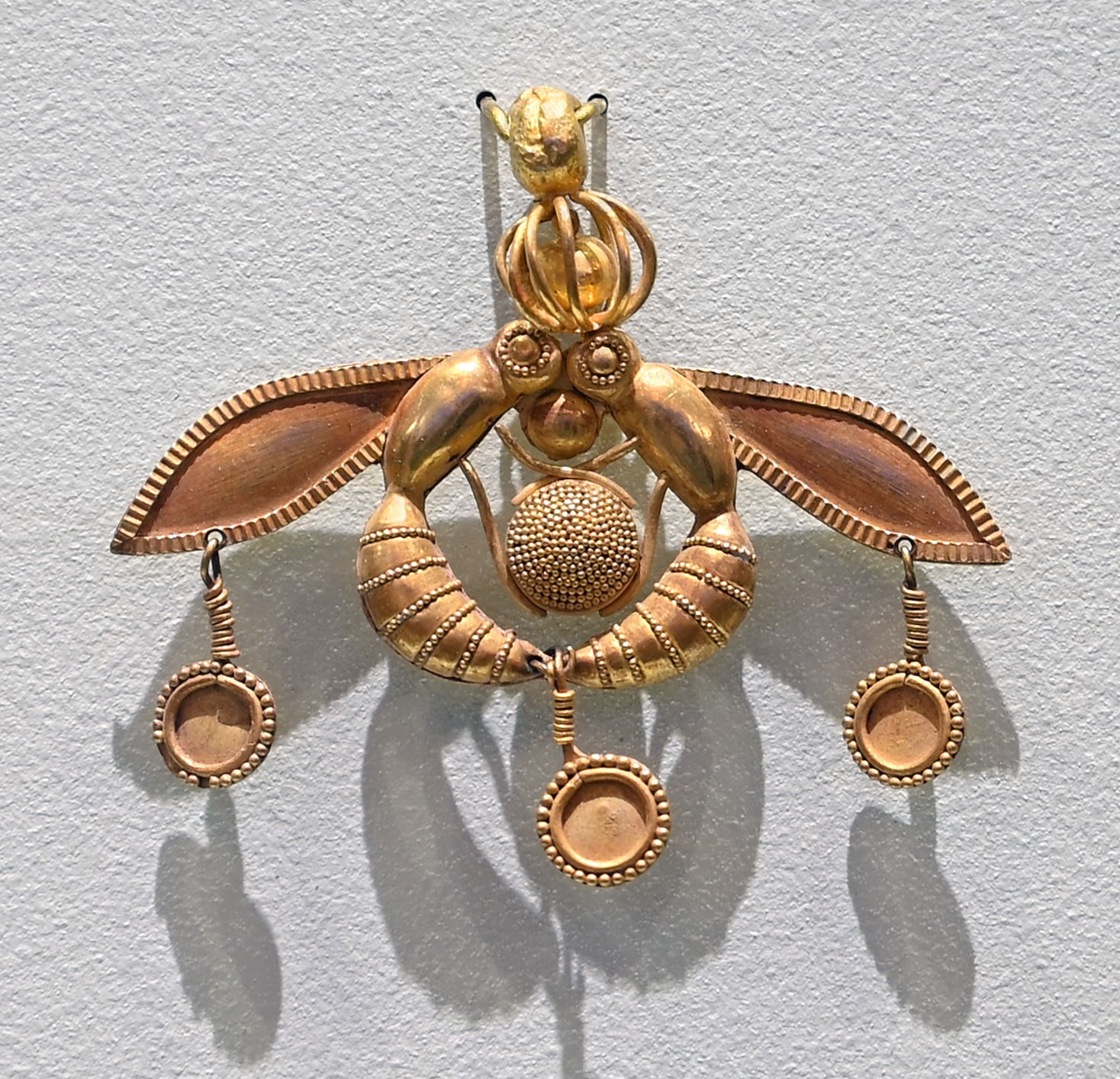 Archaeological Museum of Heraklion: Bee pendant excavated from the minoan Chrysolakkos necropolis at Malia, 1800-1700 BC, Isle of Crete, Greece. The pendant consists of two bees depositing a drop of honey in their honeycomb. They are holding the round honeycomb between their legs and the drop of honey in their mouths. On their heads the bees carry a delicate cage containing a golden bead. Small discs hang from their wings and stings. Size (width) 4.6 cm.